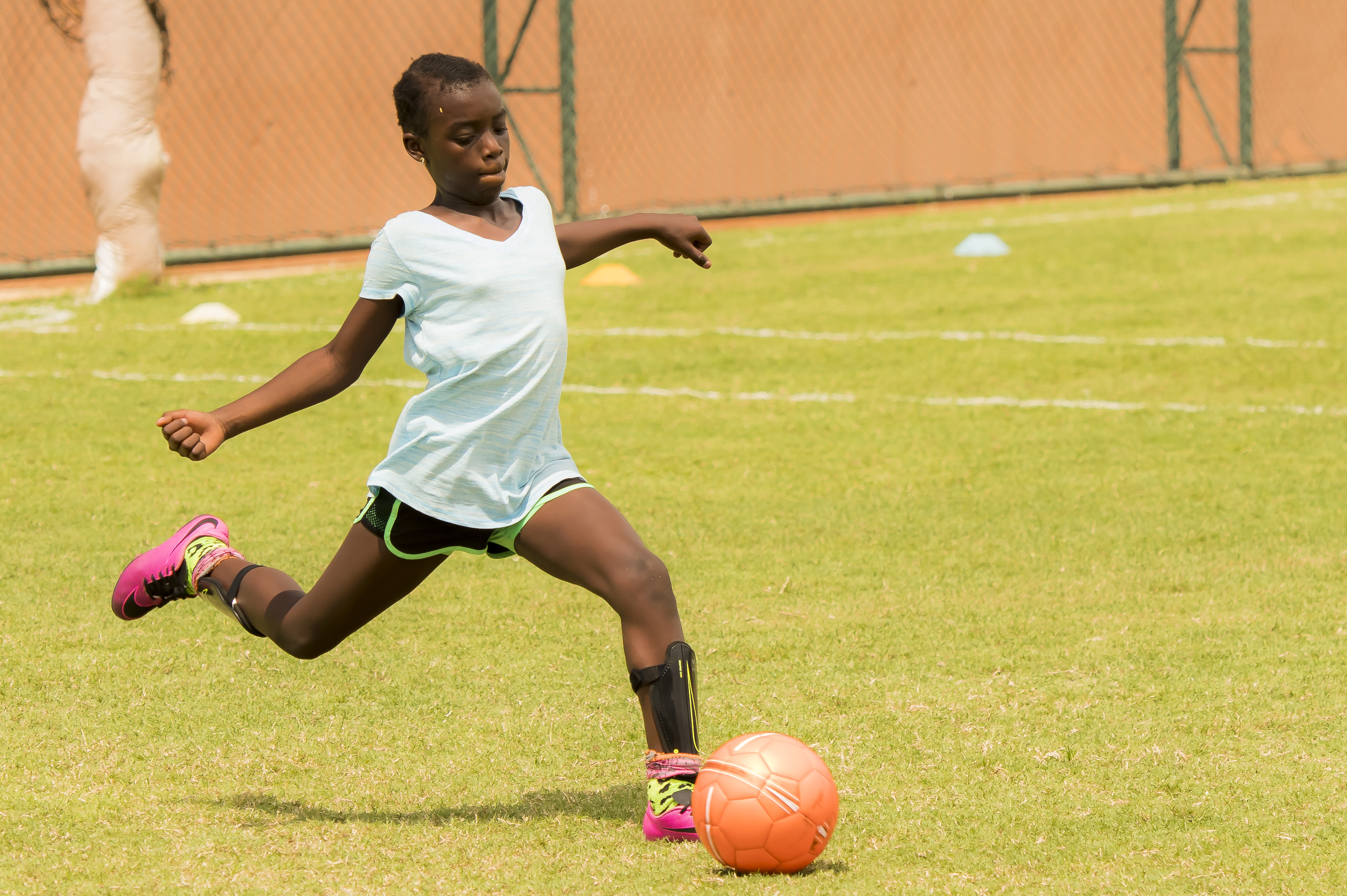 This is an image with the theme "Play" from: Angola